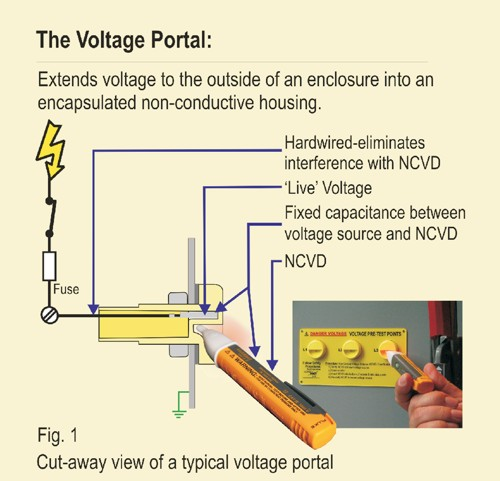 Cut-away view of a single phase voltage portal wired to a fused disconnect switch and mounted on the outside of an electrical enclosure.